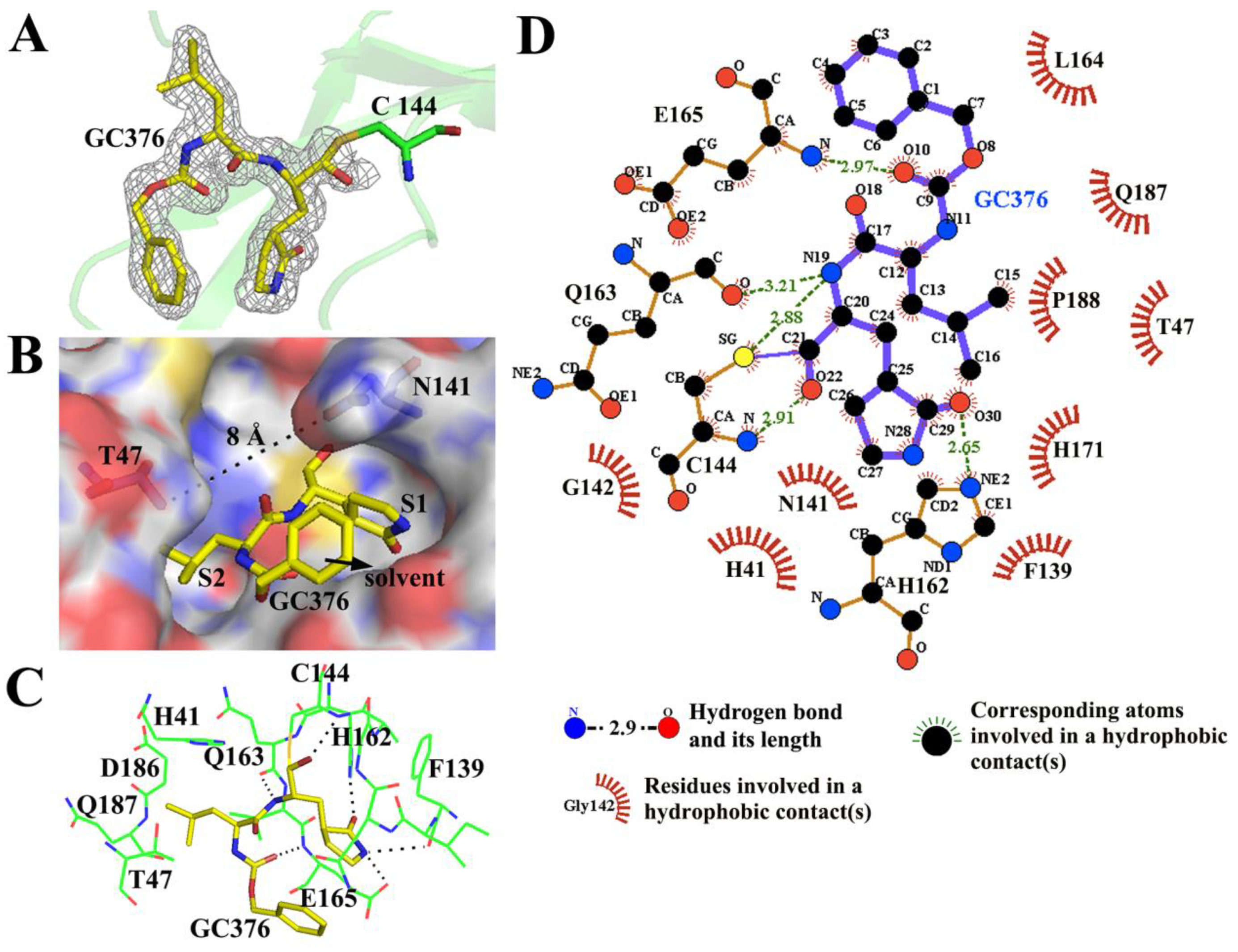 Crystal structure of the PEDV 3CLpro in complex with GC376. (A) Electron density map of GC376 (2Fo-Fc, contoured at 1.0 σ). The bisulfite group of GC376 was removed, and the compound formed a covalent bond with Cys144; (B) three-dimensional structure of the substrate-binding pockets occupied by GC376. The pocket is shown as the surface, and the two residues Thr 47 and Asn 141 are shown as sticks. The distance between the two residues is labeled. GC376 is shown in yellow as sticks. The glutamine surrogate ring and the leucine of GC376 fit comfortably into the S1 and S2 binding sites, respectively. The 6-membered aromatic ring of GC376 points to the solvent; (C) diagram of the detailed molecular interactions between GC376 and the protease. The residues of the pockets are represented in green as lines, and GC376 is shown in yellow as sticks. Hydrogen bond interactions are shown as black dashed lines; (D) structural diagram of the distributions of hydrophobic and hydrophilic interactions at the interface of the PEDV 3CLpro in complex with GC376. The residues of the protease are shown as orange sticks and red arcs with spokes. GC376 is shown in blue as sticks. Carbon, nitrogen, oxygen and sulfur atoms are shown as black, blue, red and yellow circles, respectively. Hydrogen bonds are shown as green dashed lines labeled with the distance between the donor atom and corresponding acceptor atom. Hydrophobic interactions are demonstrated by arcs with spokes radiating toward the atoms (with spokes around) or residues (shown as arcs with spokes) they contact.